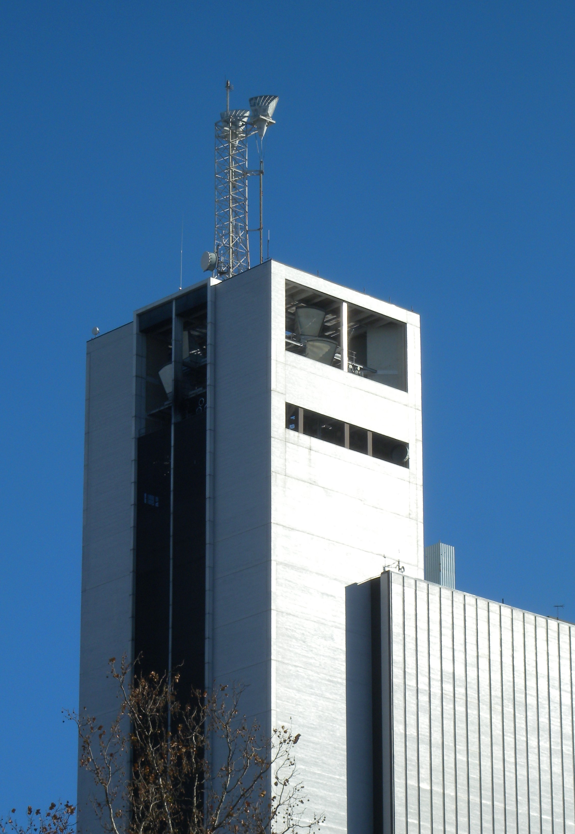 Looking northeast on a sunny late morning, from 11th Avenue at 811 10th Avenue with original Hogg antennas and later ones mounted higher for antenna diversity antifade on a Westchester / Connecticut link.